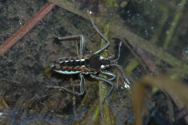 Picture taken in Commanster, Belgian High Ardennes . Species: Velia caprai